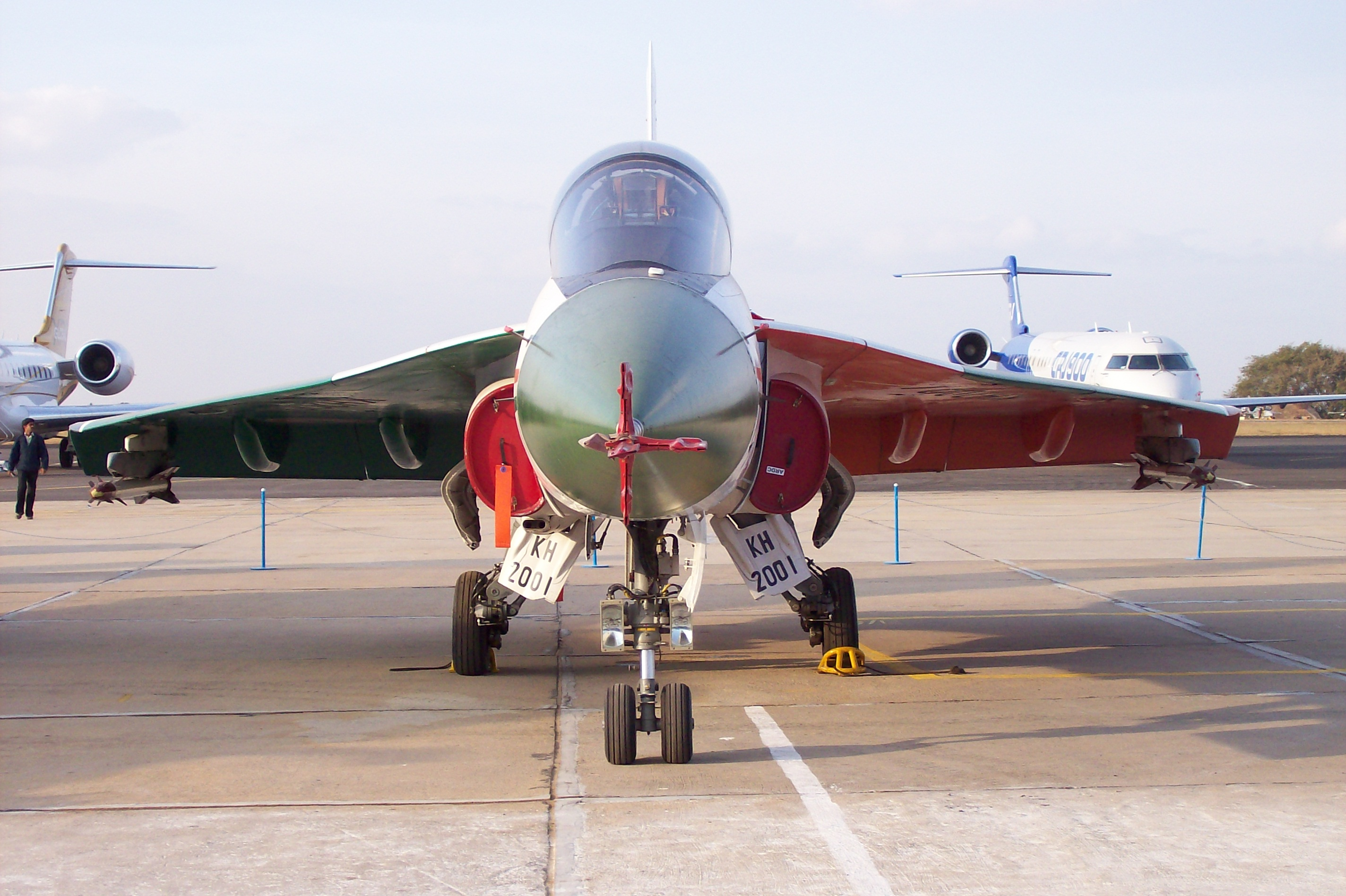 LCA at Aeroshow India 2007